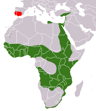 Egyptian Mongoose (Herpestes ichneumon) range (green - native, red - introduced)